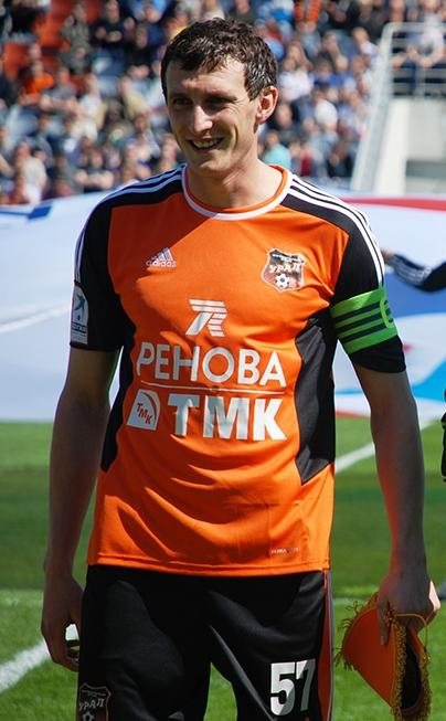 Artyom Fidler playing for FC Ural Sverdlovsk Oblast.